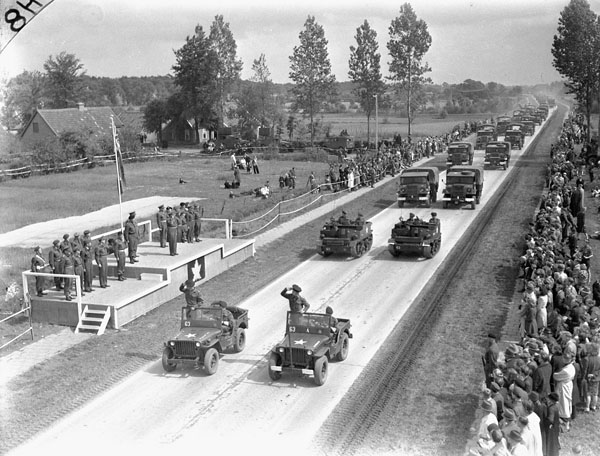 The Irish Regiment of Canada passes the saluting base during Gen. H.D.G. Crerar's review at Eelde airport.